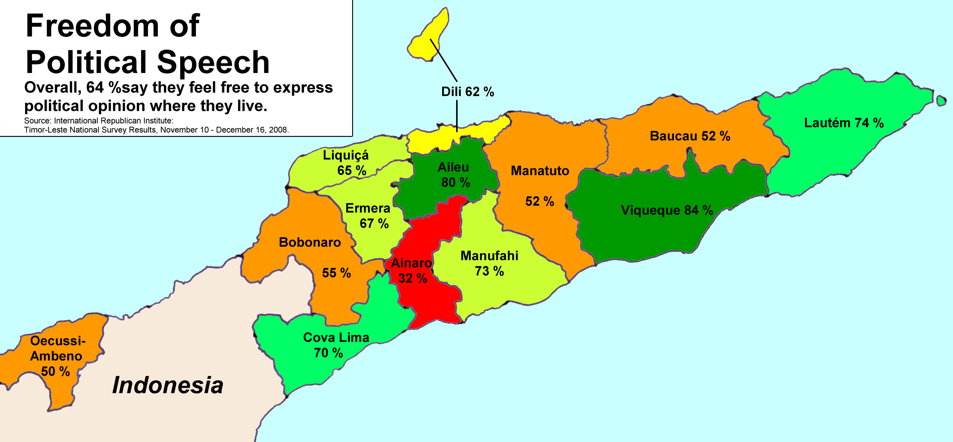 Freedom of political speech in different districts of Timor-Leste Nov./Dec. 2008 Source of information: International Republican Institute: Timor-Leste National Survey Results, November 10 – December 16, 2008